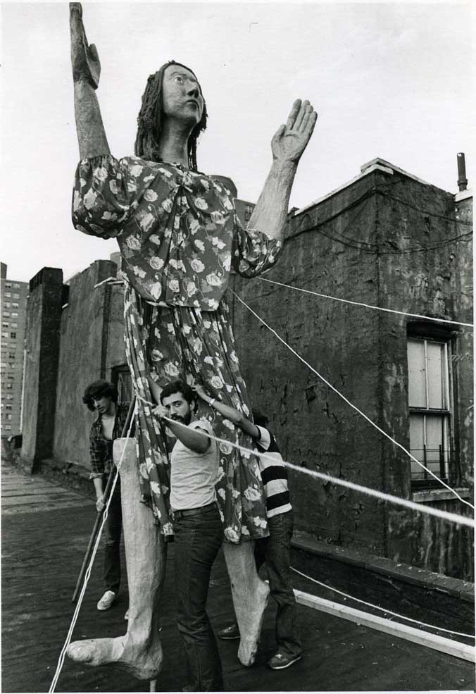 Elsa -- appearing in Backyards, directed by Brisky, performed in Spanish Harlem.